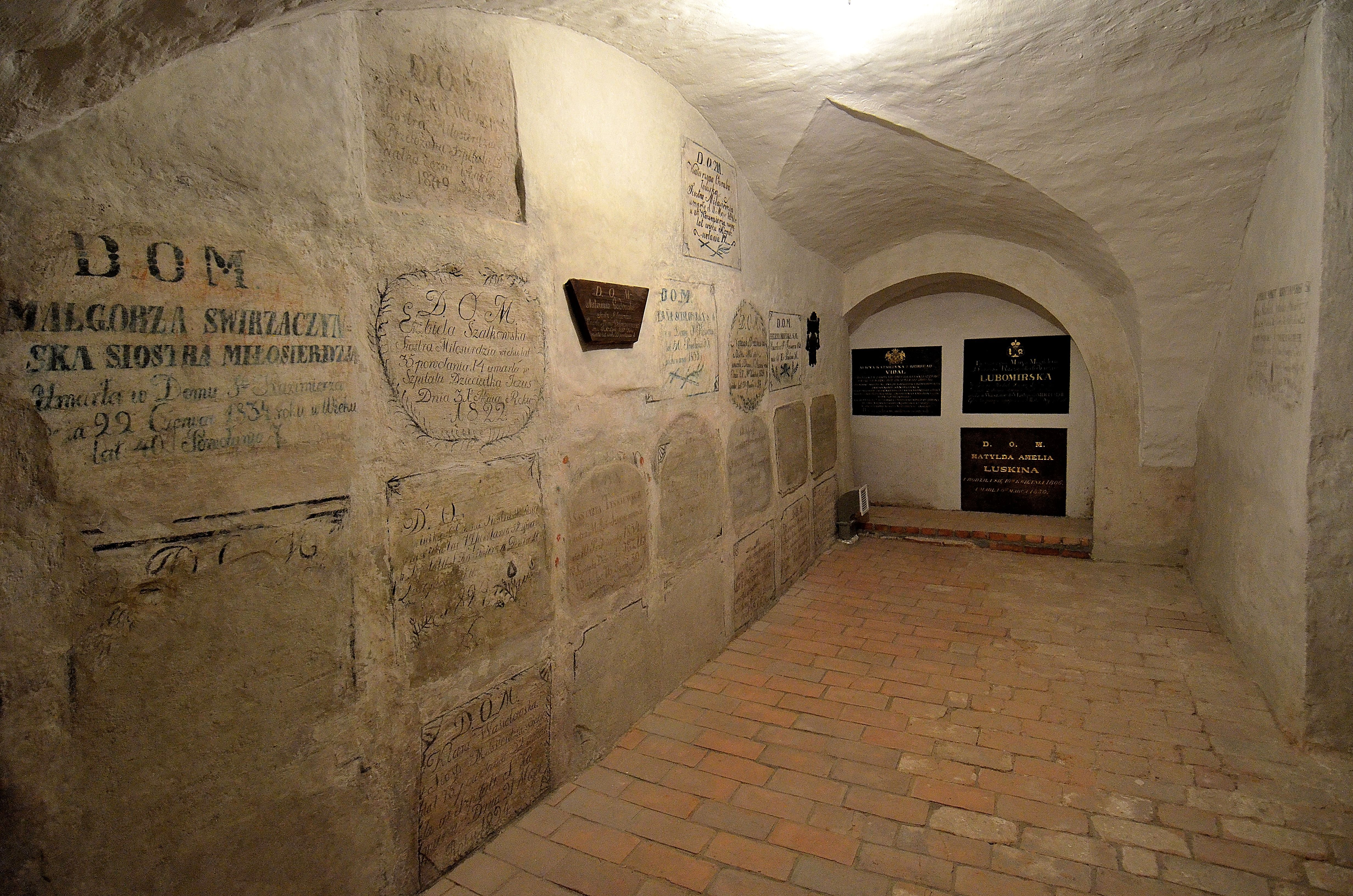 Crypt in the lower church of the Holy Cross Basilica in Warsaw